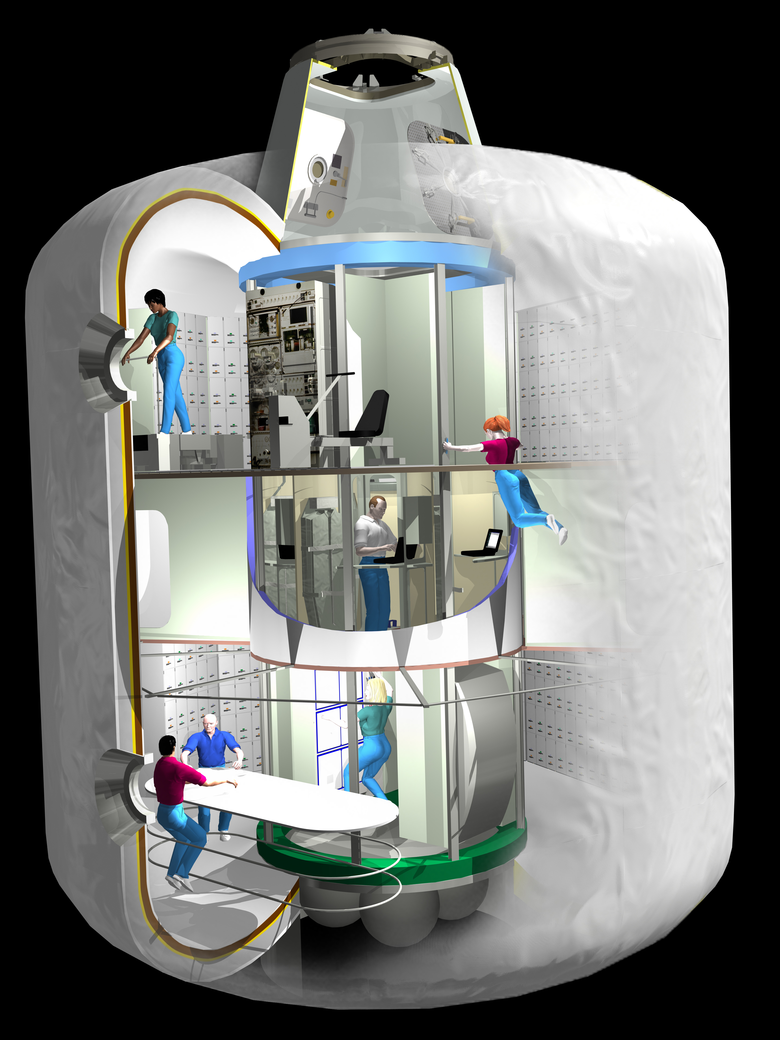 S99-05363 - Computer Generated Still - Cutaway of Transhab Module with Crew members. Transhab Module to be installed on the International Space Station.